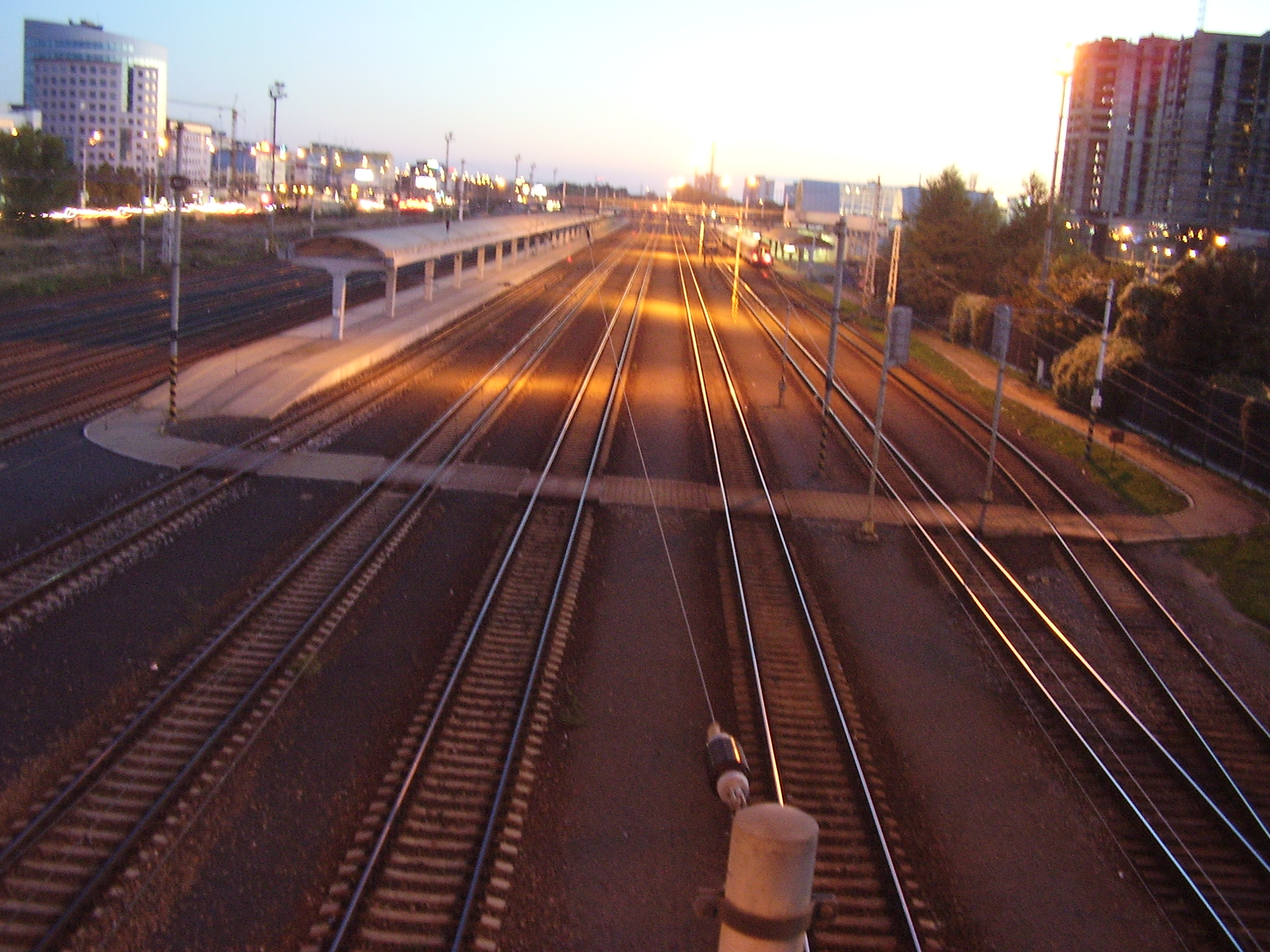 Bratislava-Petržalka Railway Station